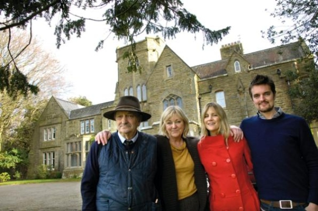 Photo of James, Sally, Sarah, and Jim Whewell of Wyresdale Park in Lancashire